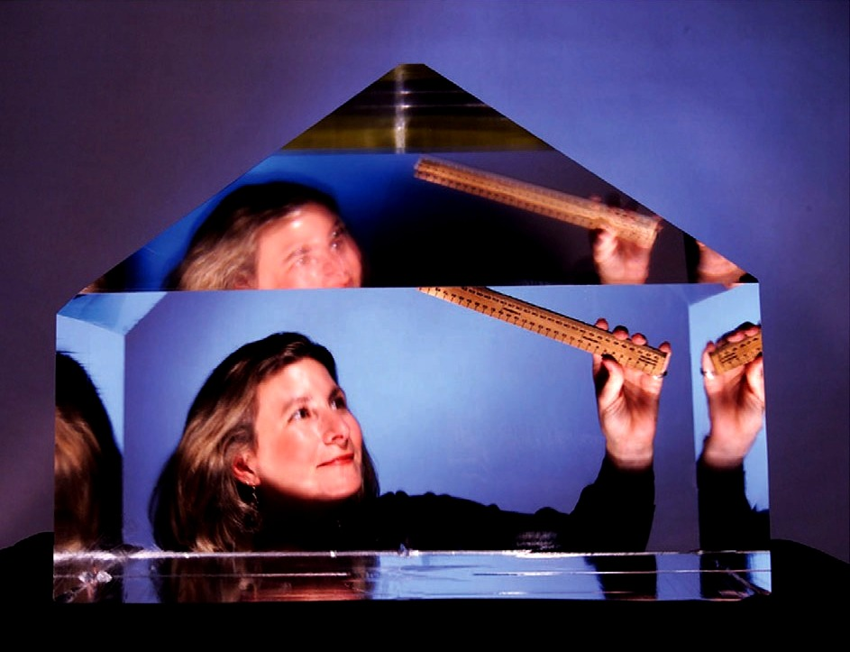 A large single crystal of monopotassium phosphate (KDP, KH2PO4) exhibits optical birefringence, as demonstrated by National Ignition Facility scientist Terry Land.